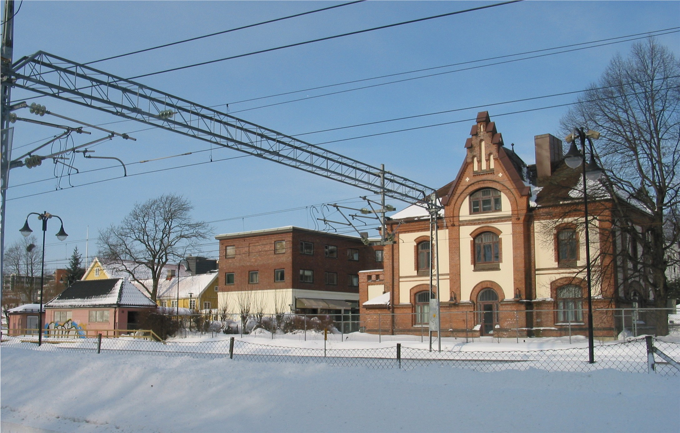 The train station bulding in Stabekk, Norway. Taken by me on March 5, 2006.